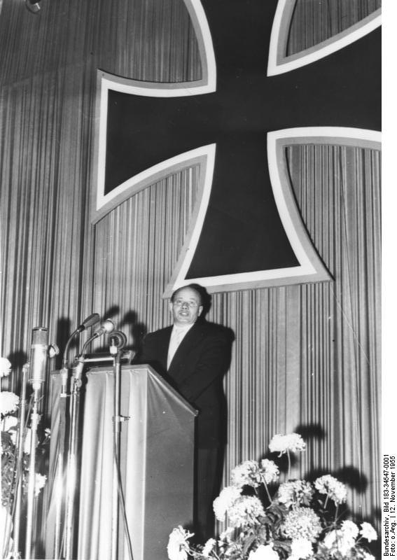 GFR, Bonn, Ermekeil-barracks, 1955, Defence-Minister Theodor Blank, during the speech at the appointment-ceremony for the first 101 volunteers for the new west-german army. From GDR archives. Original caption reads: First generals nominated. During the foreign ministers conference in Geneva, the revenge-politicians from Bonn already speeded up the deployment of the westgerman mercenary-army. Right now they request a new issue of the cold-war and make preparations to turn it into a hot one. The first 101 officers as cadre of the future army have been officially nominated on 12th November 1955 by minister of war Theodor Blank. Minister of war Blank speaks to former fascist officers, which have been appointed as cadre for the new army. Over Blank boasts the iron cross, once donated as medal for extraordinary bravery in the independence wars, it shall now be again misused as in the past wars. It should be a warning to Mr. Blank, that he as well is one of those knights of the east who did march into defeat under this emblem.